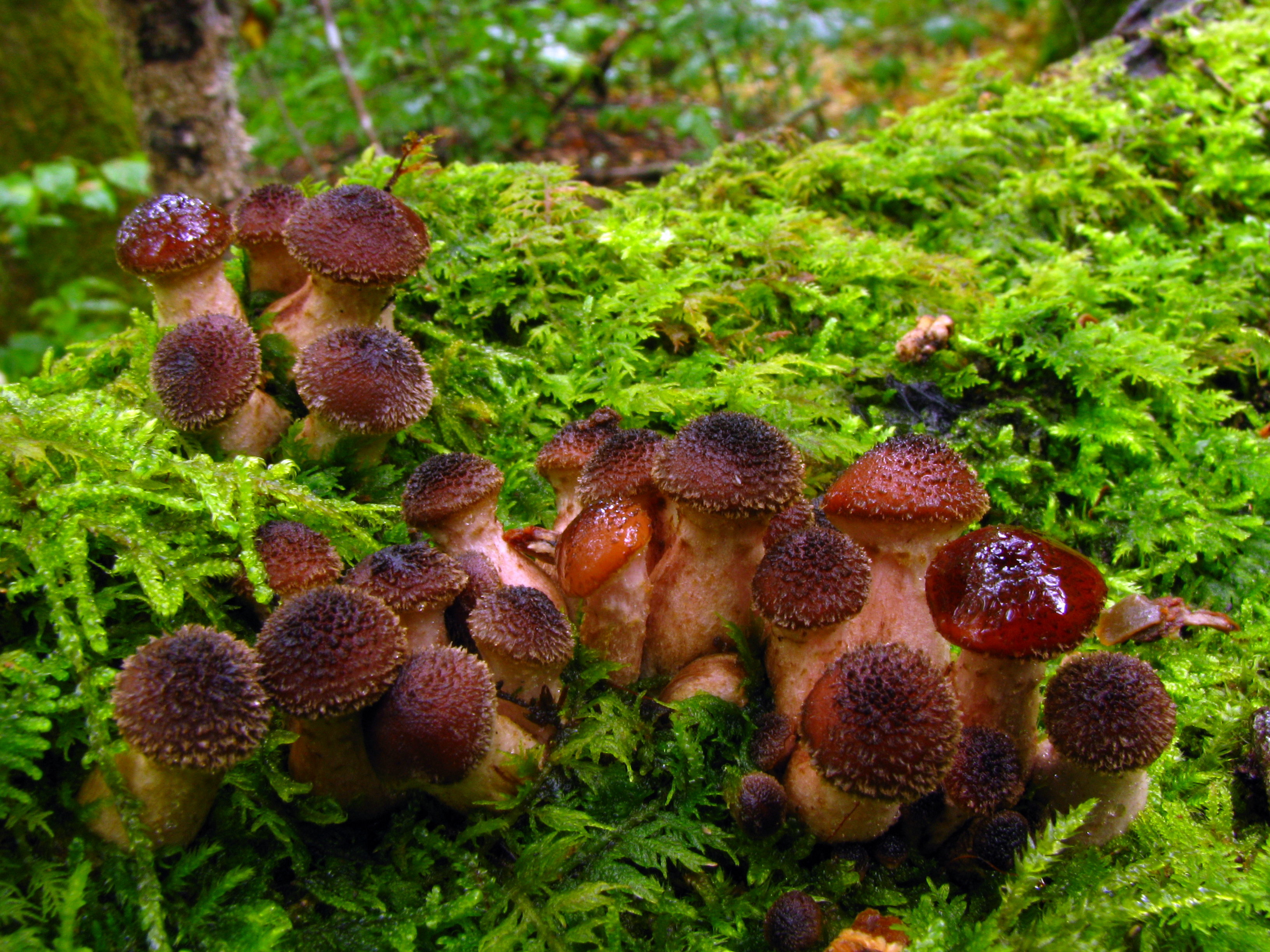 The mushroom Armillaria gallica Marxm. & Romagn. Photographed in Cranberry Wilderness, Monongahela National Forest, West Virginia, USA.